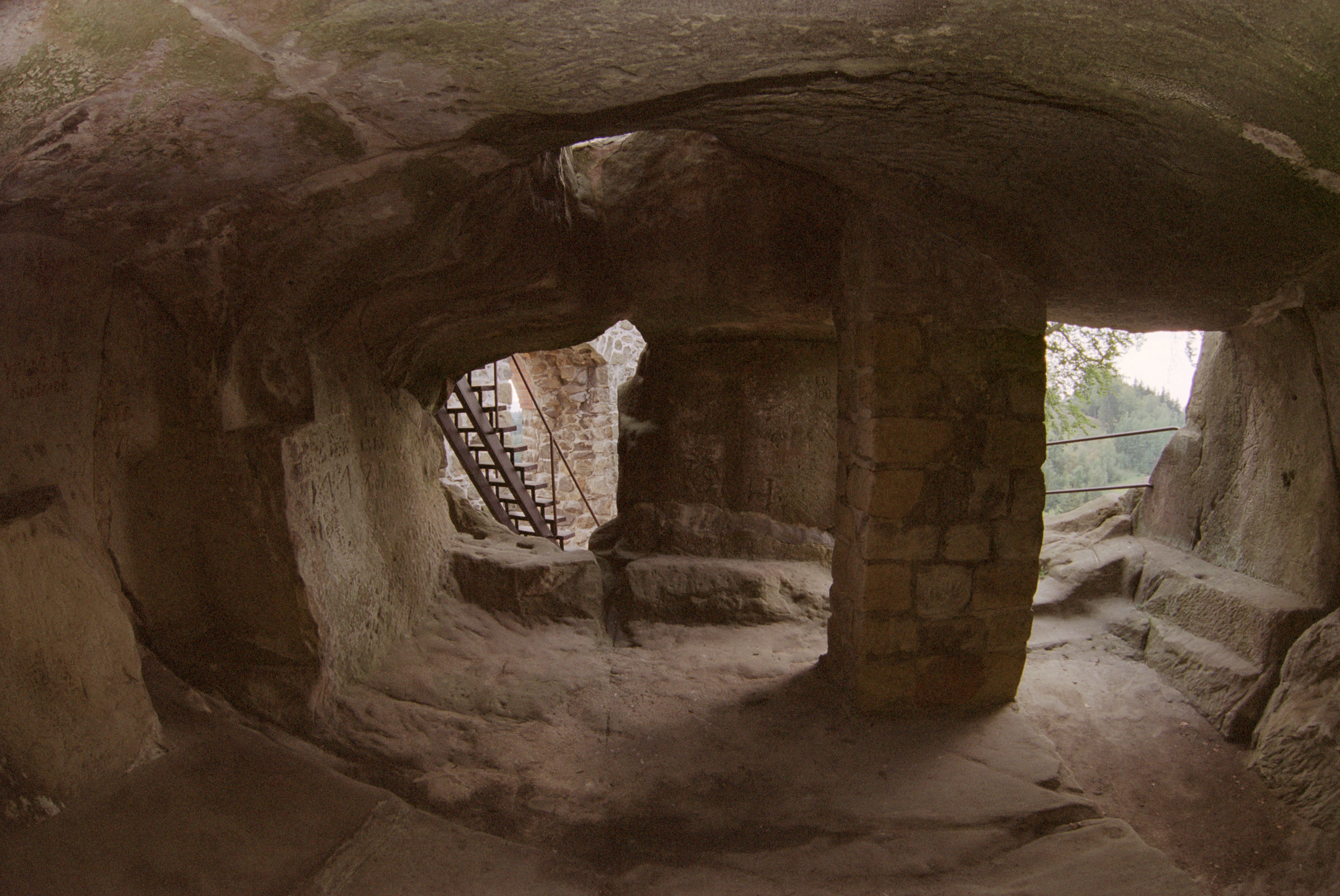 castle Frýdštejn in czech Republic rooms built into the sandstone-rocks own picture, taken in autumn 2004